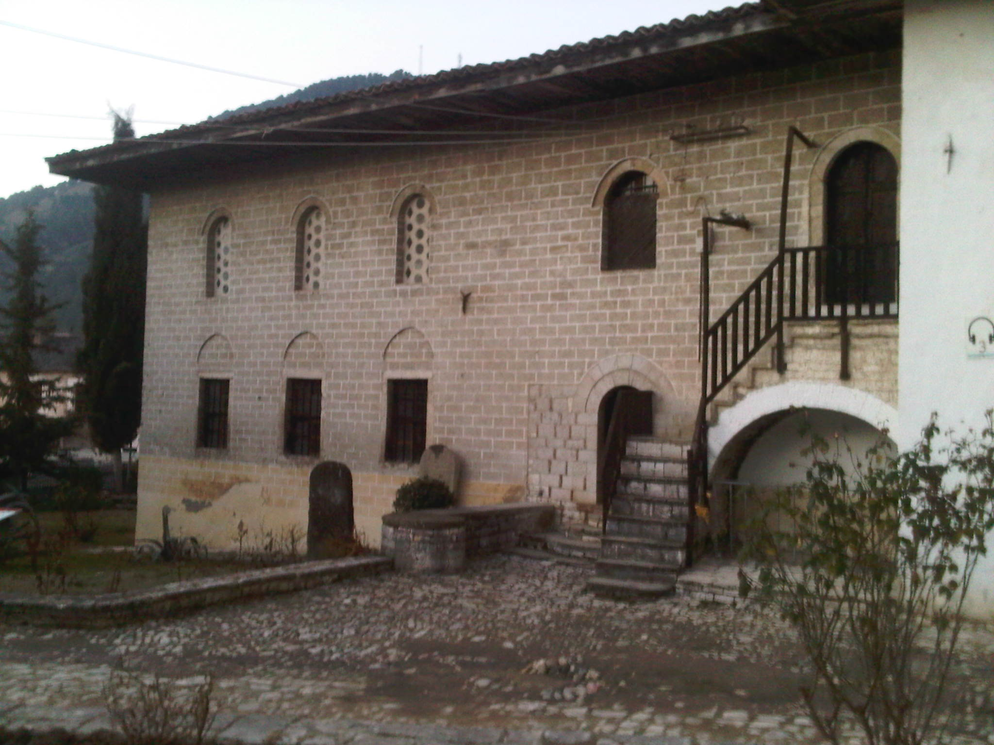 Pamje nga pjesa veriore e Xhamisë mbret